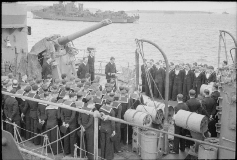 Church service aboard British destroyer HMS Javelin. A 4-inch QF Mk V anti-aircraft gun is seen the left background. Depth-charges and launcher are seen in the right foreground